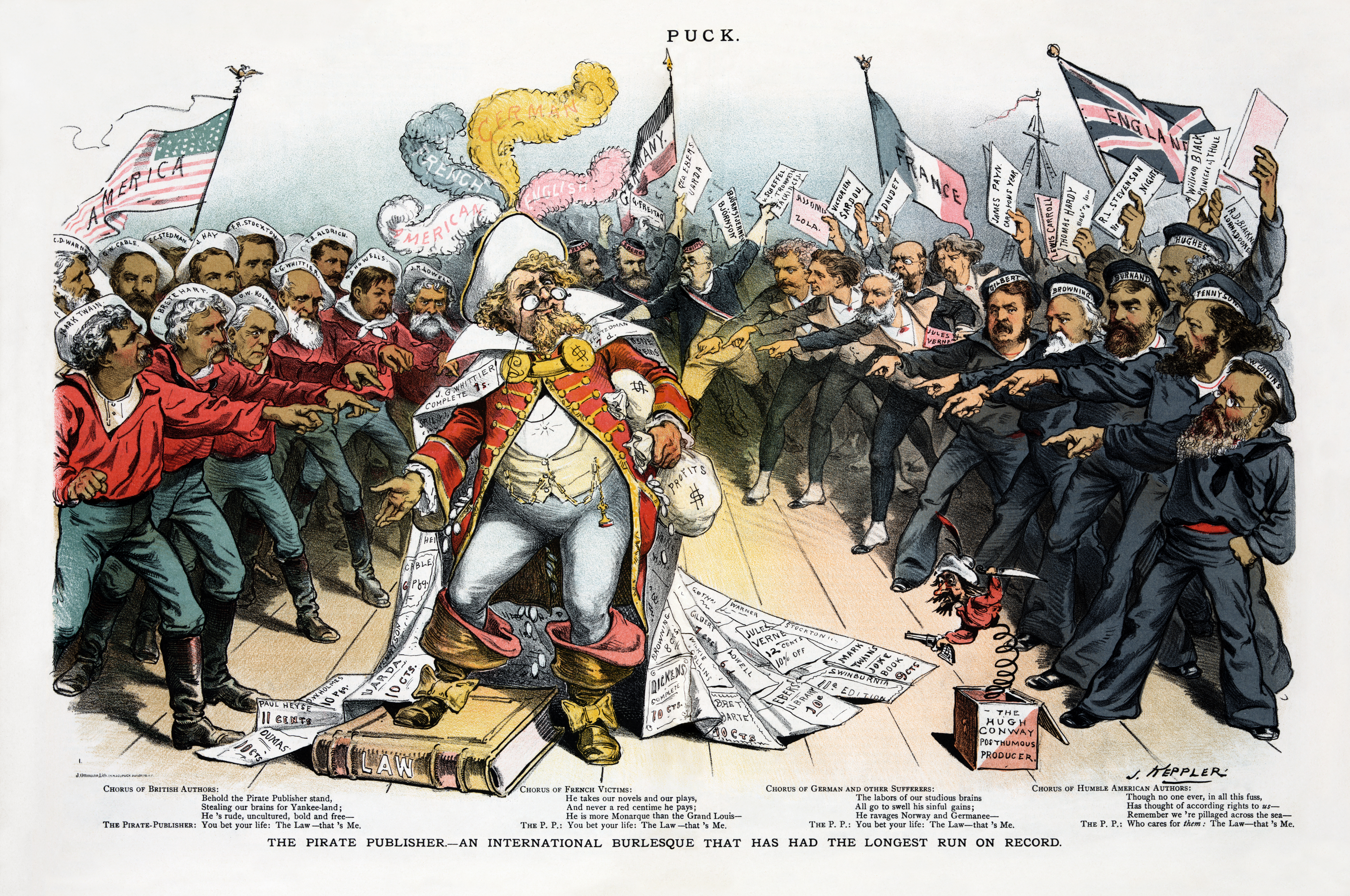 The Pirate Publisher—An International Burlesque that has the Longest Run on Record by Joseph Ferdinand Keppler, published as a centrefold in Puck, v. 18, no. 468 (1886 February 24). A commentary on the state of copyright laws that, prior to a 1911 treaty, generally offered no protection to foreign authors and works. In the cartoon, hordes of German, Norwegian, French, English, and American authors surround a publisher who republishes their newly-created works without attribution or royalties in a foreign country, as international law then allowed. Of note is W. S. Gilbert, fifth from the right in the front row, as the many unauthorised or "pirate" productions of H.M.S. Pinafore caused him and Arthur Sullivan to première The Pirates of Penzance in America, to at least gain the initial profits there before anyone else could exploit it, and the title and subject of The Pirates of Penzance is sometimes - although somewhat dubiously in my opinion - considered to partially be a reference to the issue of pirate productions of their works. Other authors shown include Mark Twain, Tennyson, Robert Browning, F. C. Burnand, Émile Zola, Jules Verne, Victorien Sardou, Wilkie Collins, Oliver Wendell Holmes, Sr., as well as many others. This has been a very difficult restoration - there were actually 3 or 4 false starts as I tried to get around a very nasty crease in the original. I think it came out pretty well in the end, though.